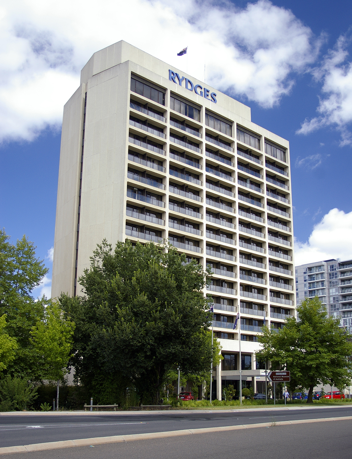 Rydges Lakeside in Canberra, Australian Capital Territory.